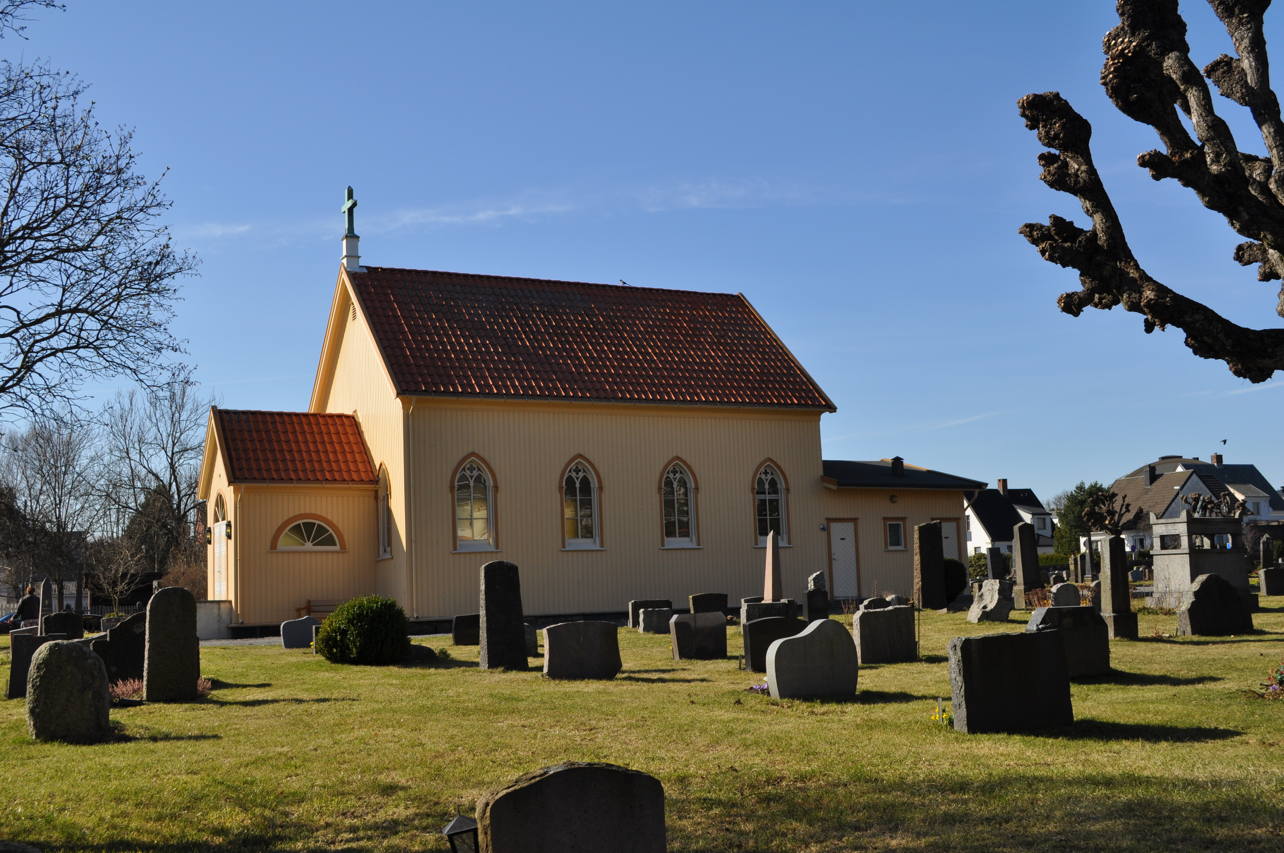 Cemtery in Sandefjord